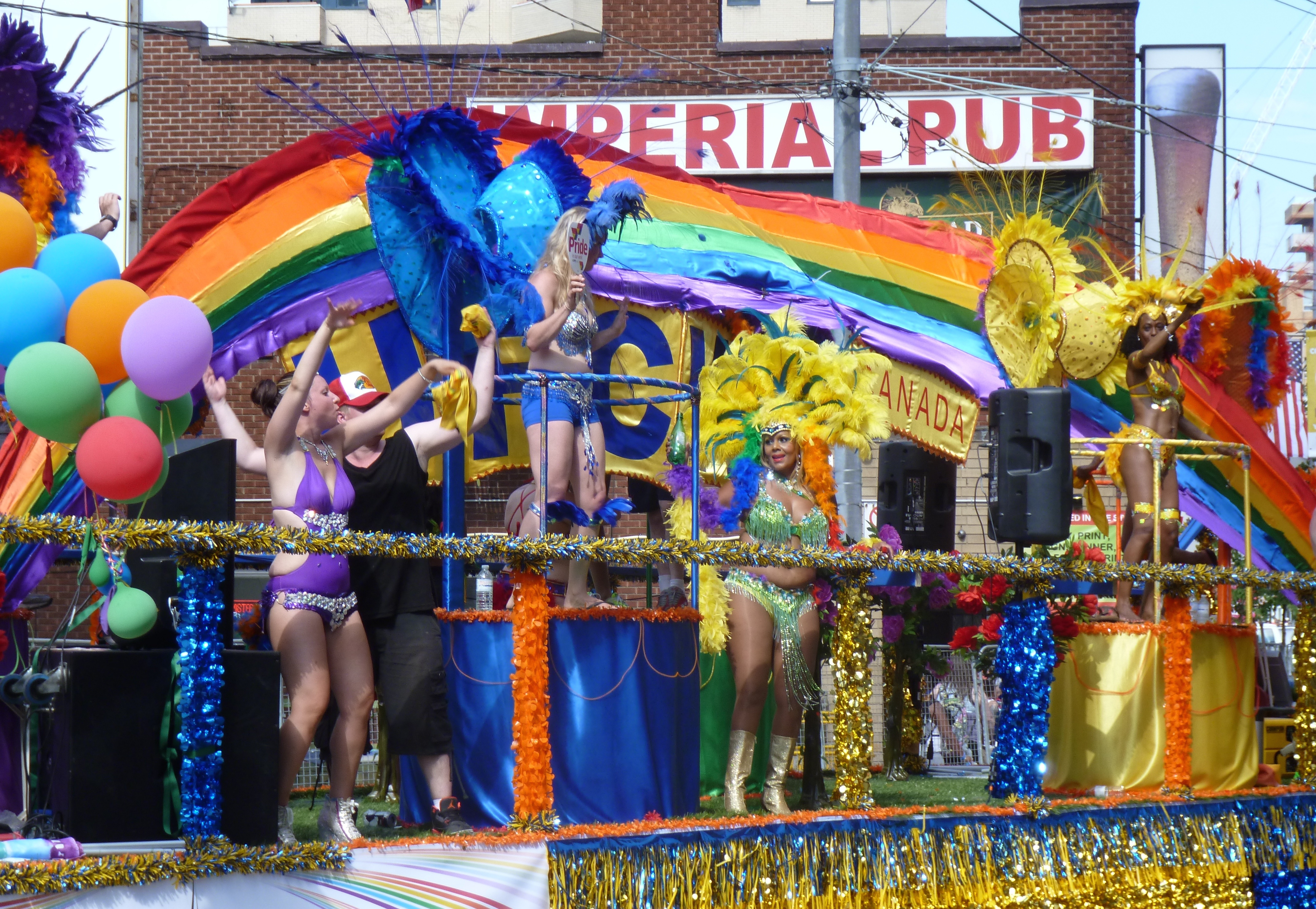 World Pride 2014 - Toronto, ON Canada